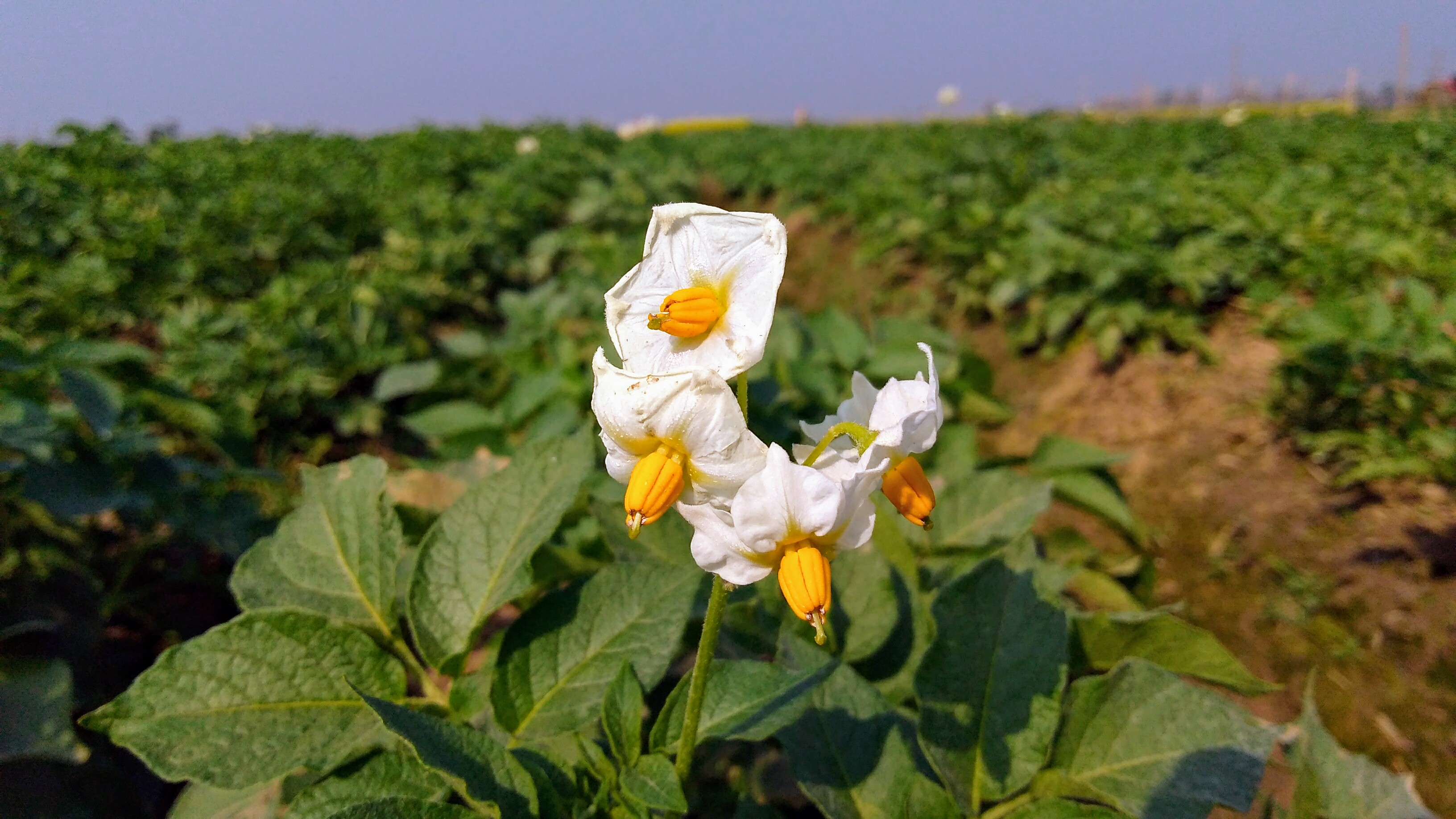 This is a flower of potato tree, it blooms in my field.